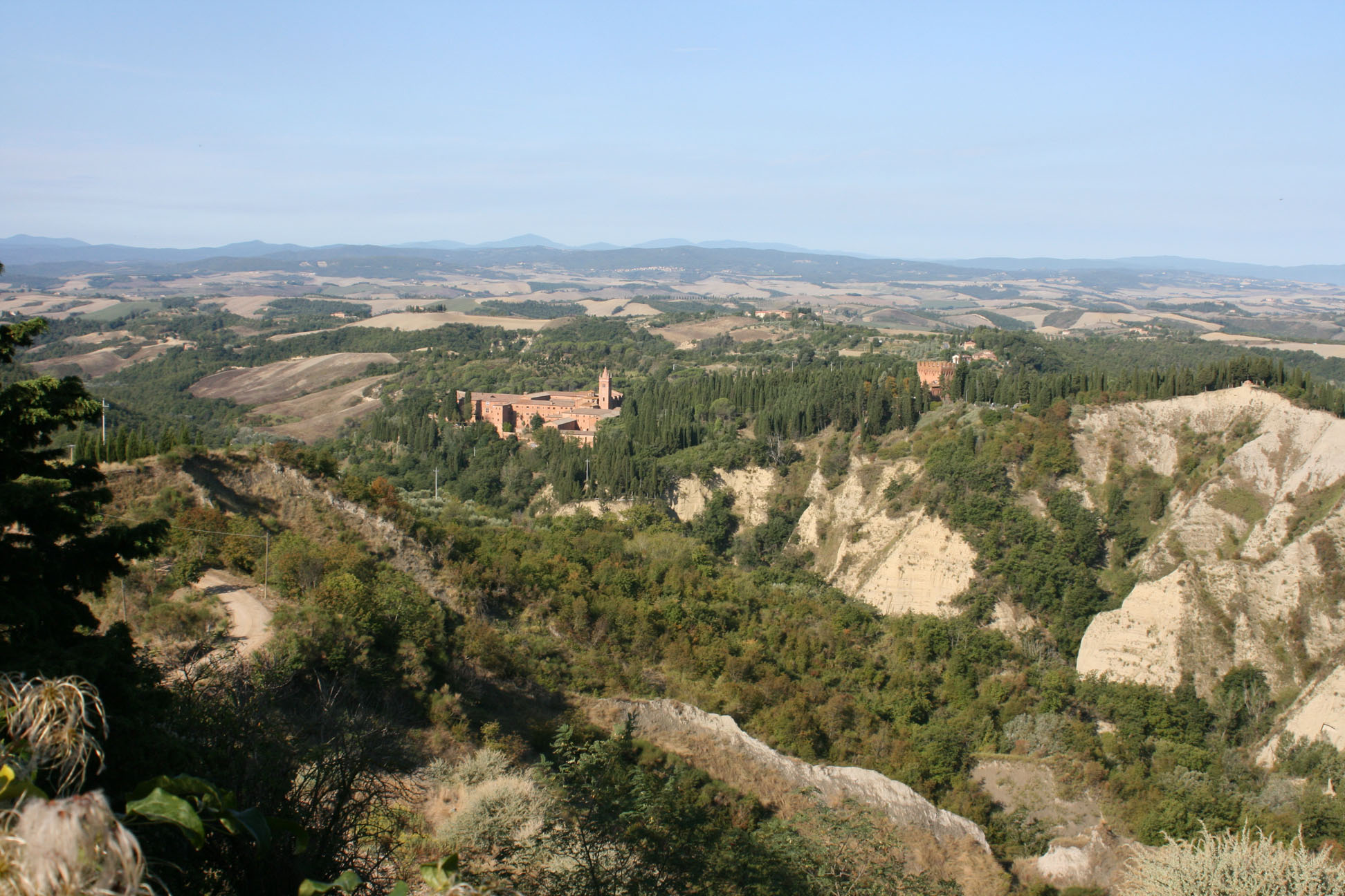 Crete Senesi (Italy: Tuscany): Abbay of Monte Oliveto Maggiore